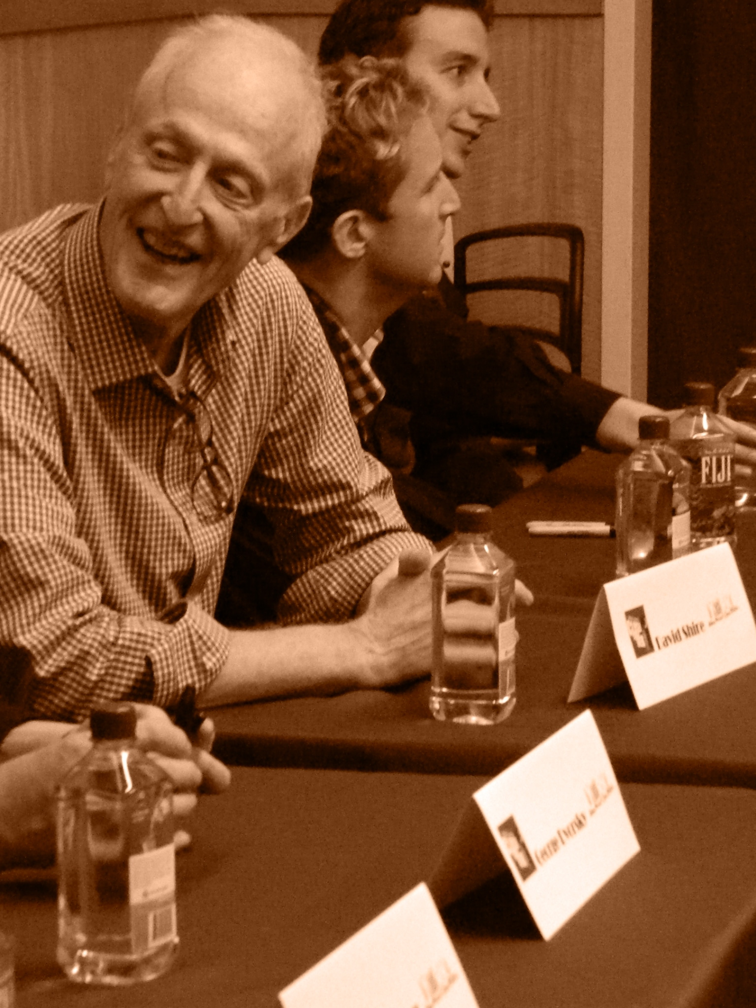 David Shire in New York, Friday evening, Sept. 20, 2013.